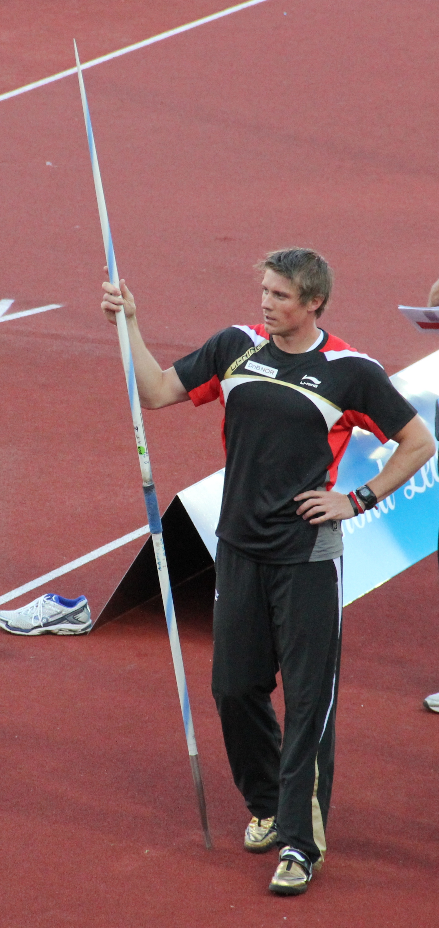 Andreas Thorkildsen at the 2010 Bislett Games